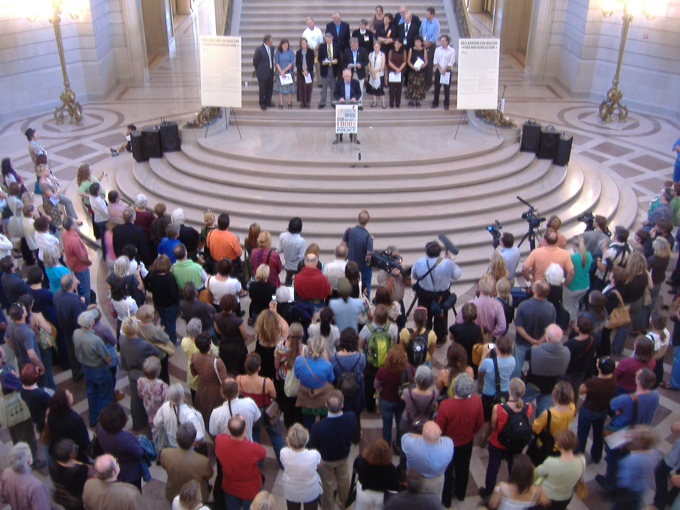 Michael Dimock, president of Roots of Change, announces the Declaration for Healthy Food and Agriculture at Slow Food Nation 2008.